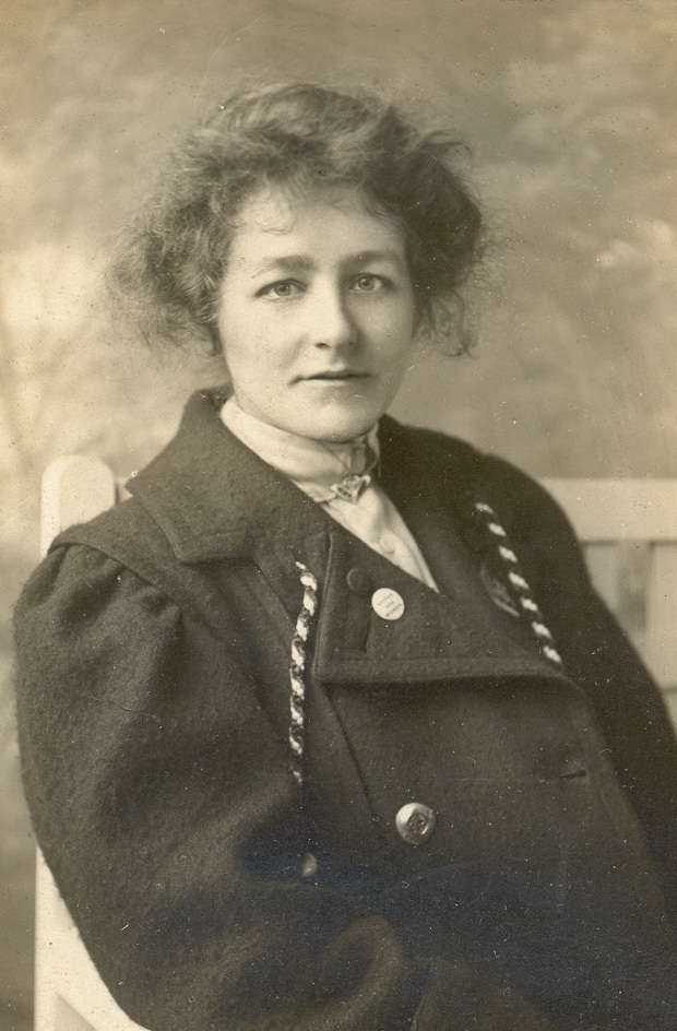 Edith New suffragette of WSPU by Peter McNairn of Hawich who died in 1923 (according to Geni). Peter worked with his brother John and his dad and they ran a newspaper business in Hawick. He died in 1923 according to Geni. Guess this pic as 1908